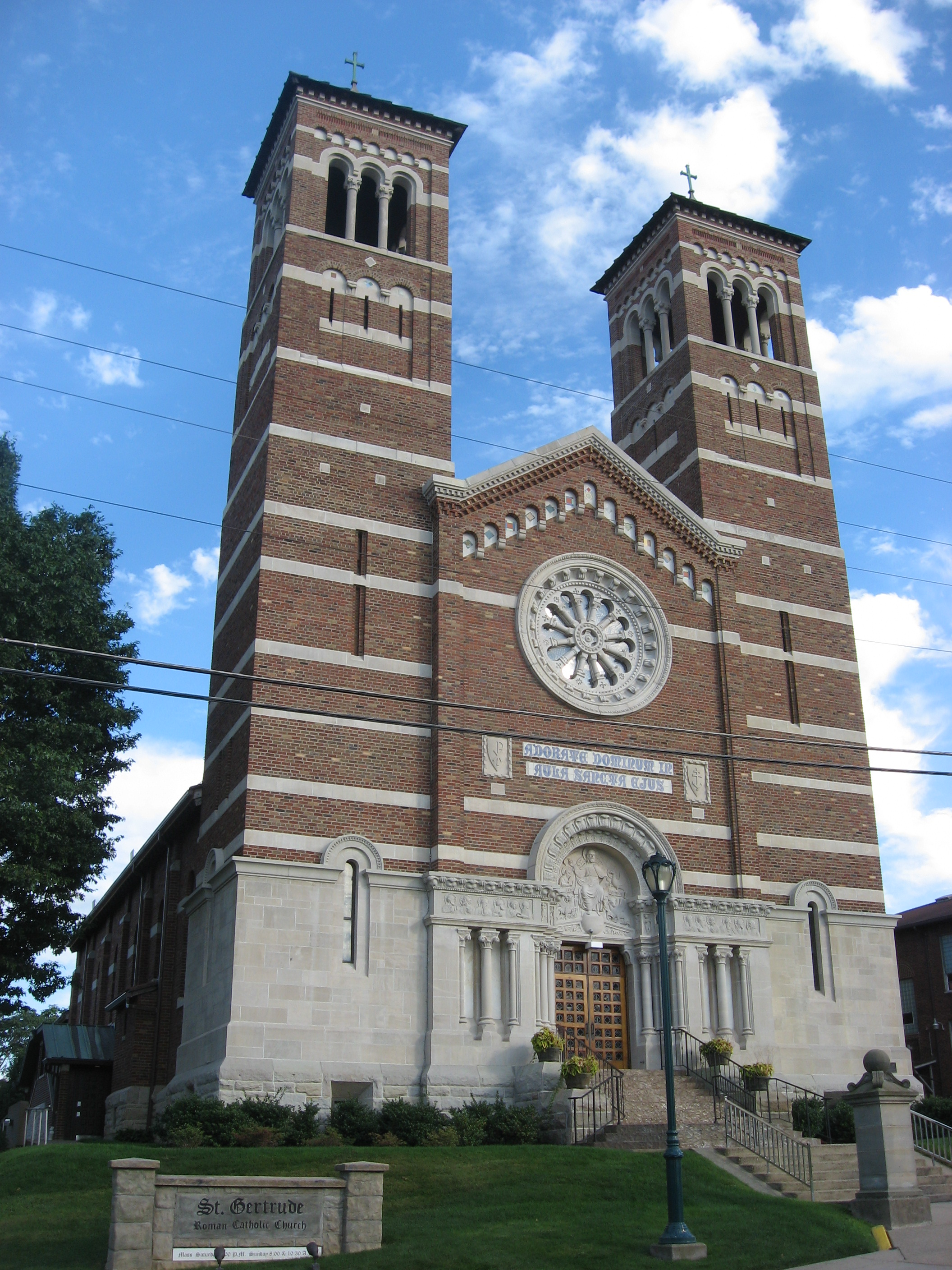 Front and northern side of St. Gertrude Roman Catholic Church, located at 311 Franklin Avenue in Vandergrift, Pennsylvania, United States. Built in 1911, it is listed on the National Register of Historic Places.